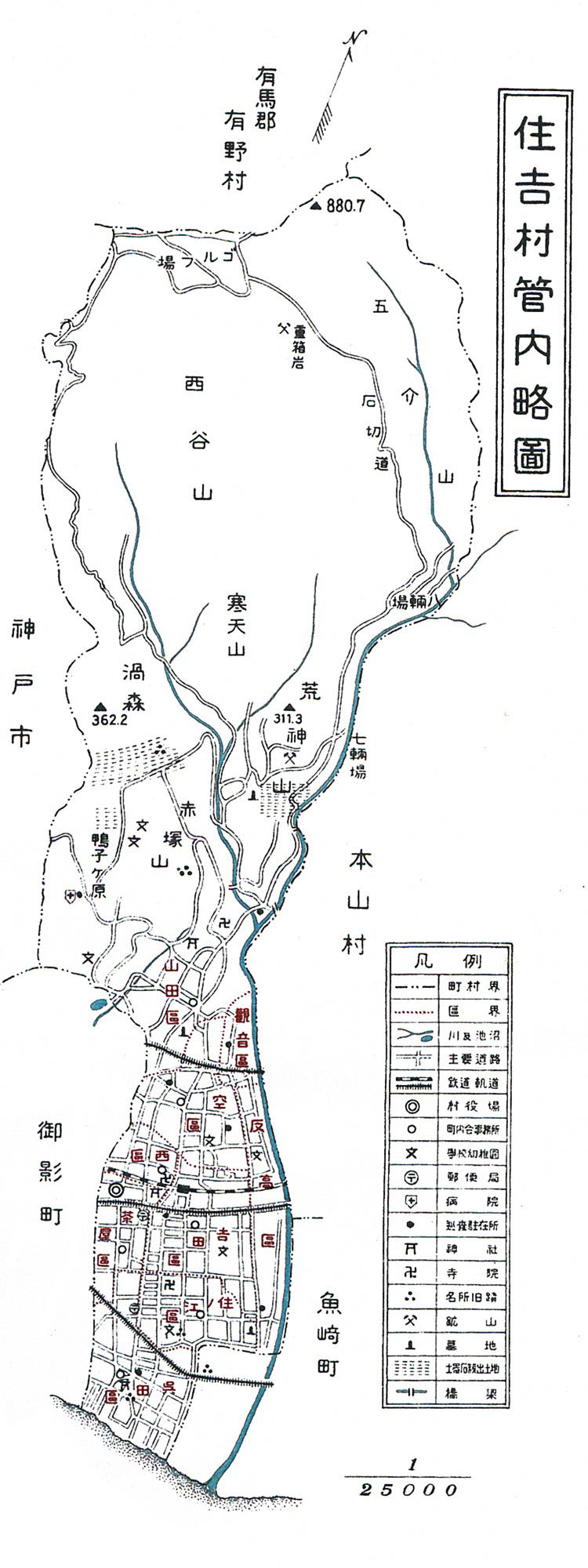 Map of Sumiyosi Village, Muko County, Hyogo, Japan.